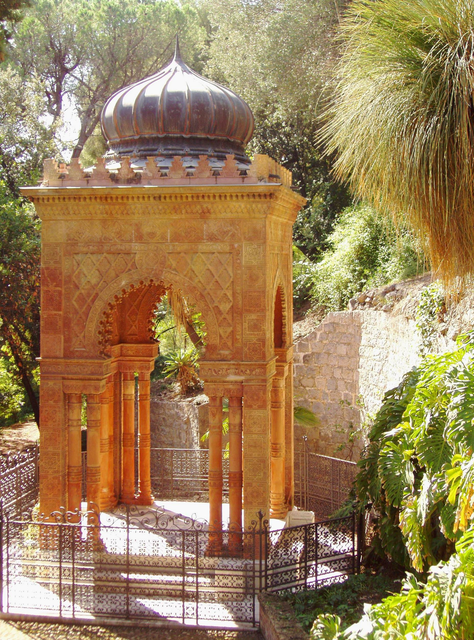 View of the Villa Orengo gardens and the Hanburys' Mausoleum pavilion at Hanbury Botanical Gardens - at Ventimiglia, Liguria - Italy.